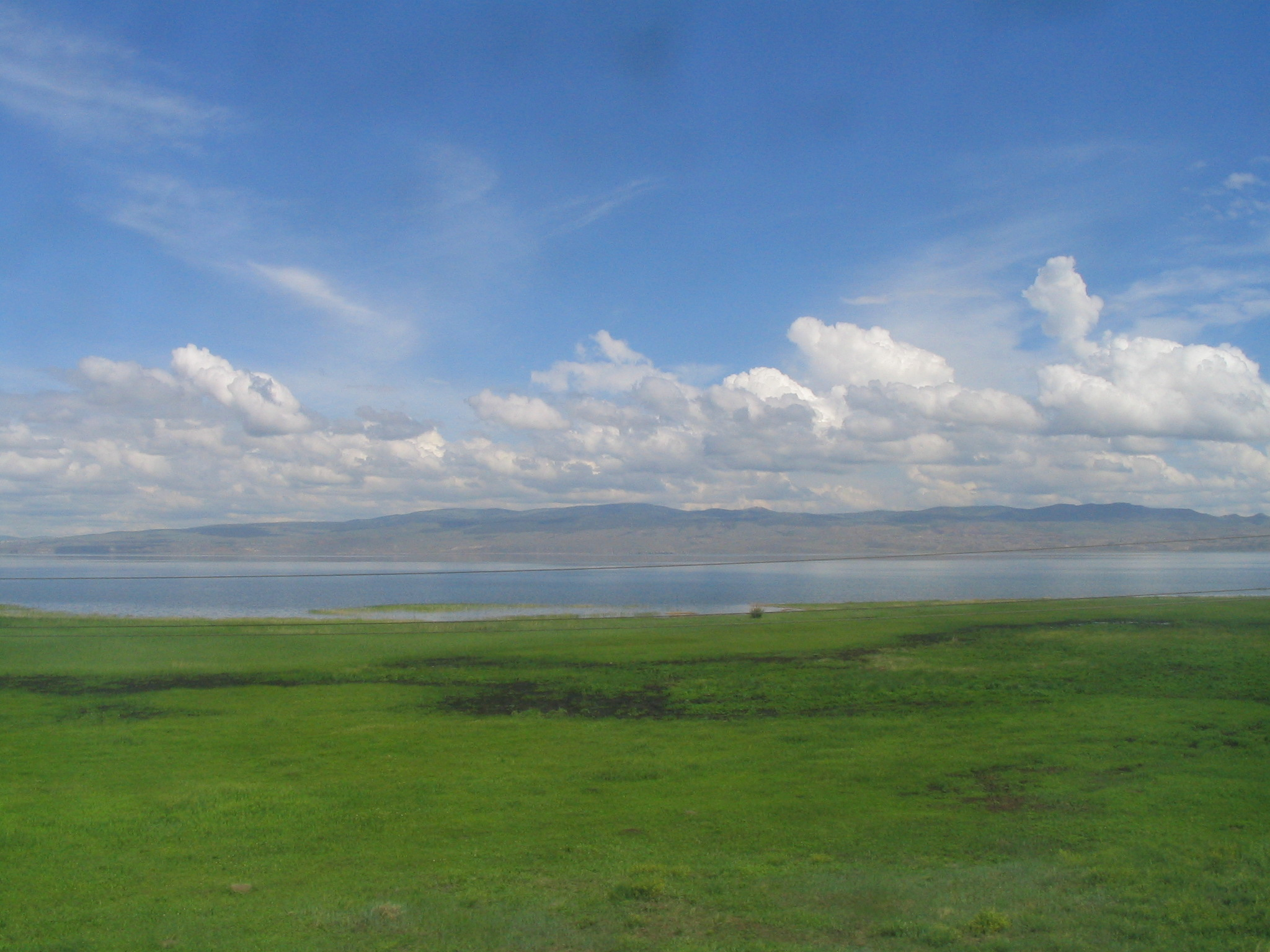 Goose Lake in southeastern Siberia